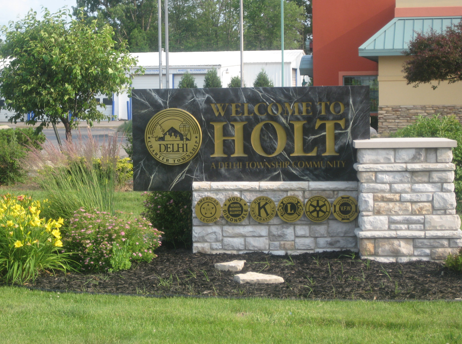 Holt, Michigan entrance sign along Cedar Street facing southeast; suburb south of Lansing.